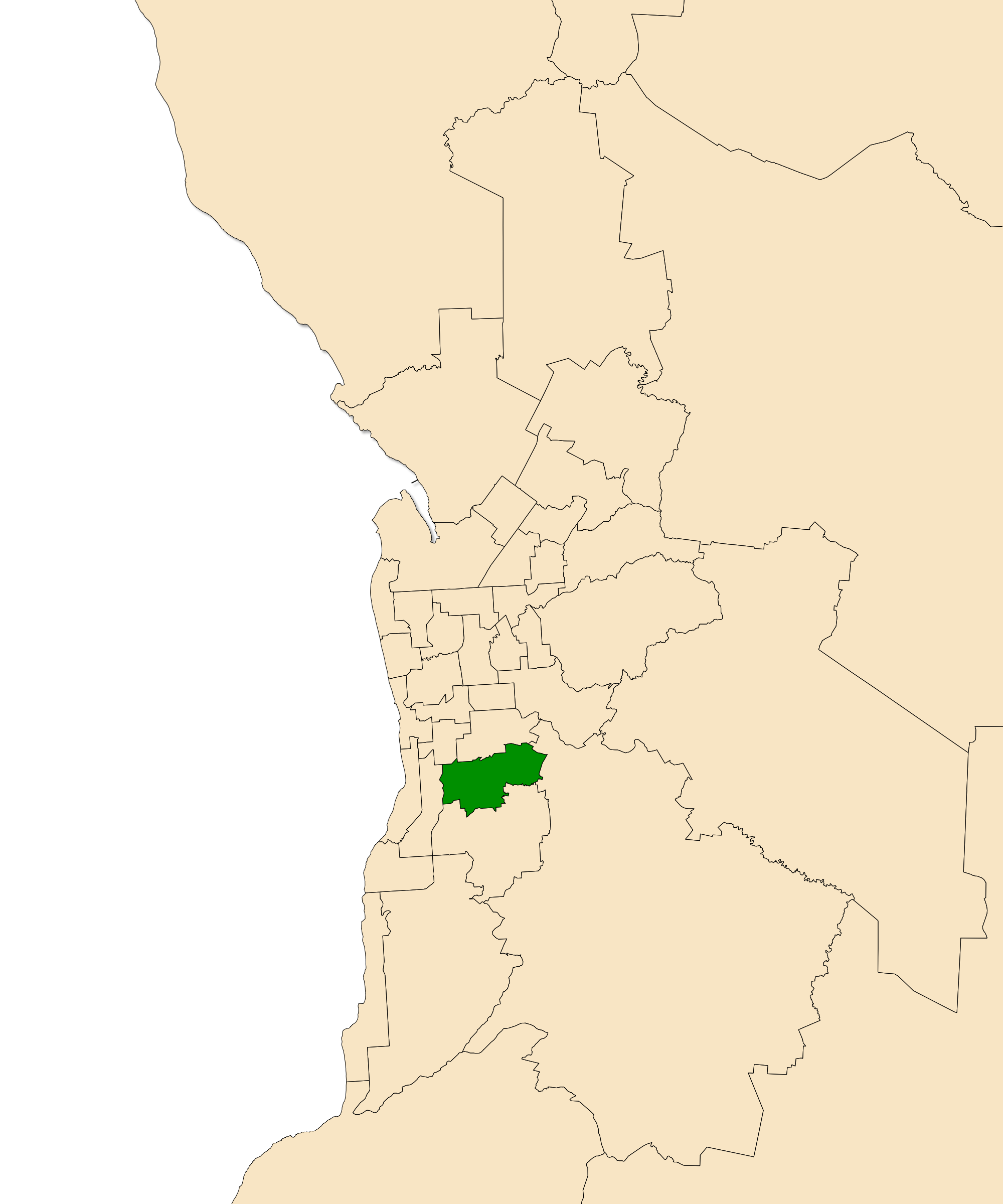 The South Australian electoral district of Davenport, shown dark green in the Greater Adelaide area. Map derived from data at South Australia Department of Planning, Transport and Infrastructure, licensed under a Creative Commons Attribution 3.0 Australia Licence.